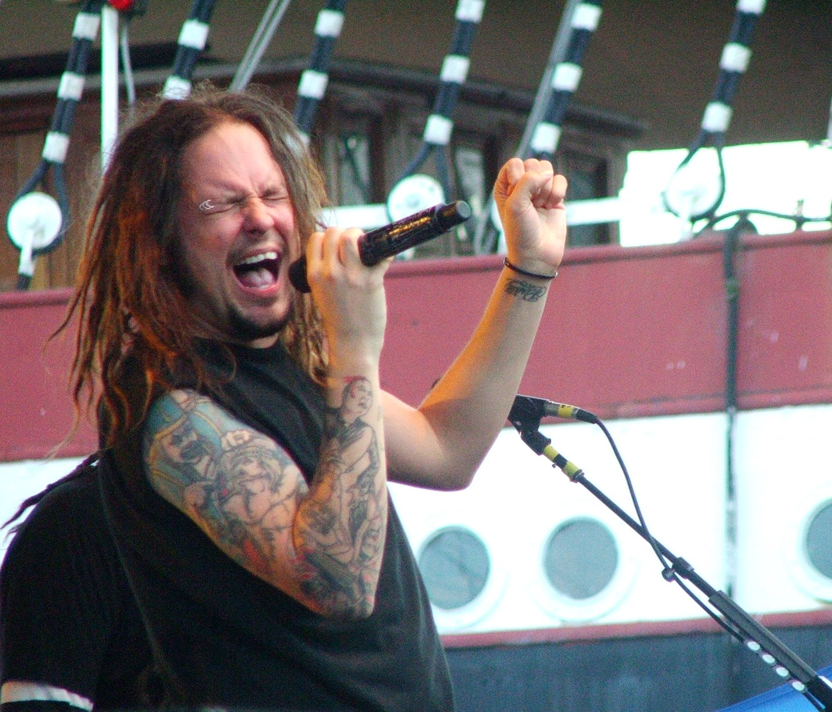 Jonathan Davis at the Free Manhattan Korn Show, 1 August 2007